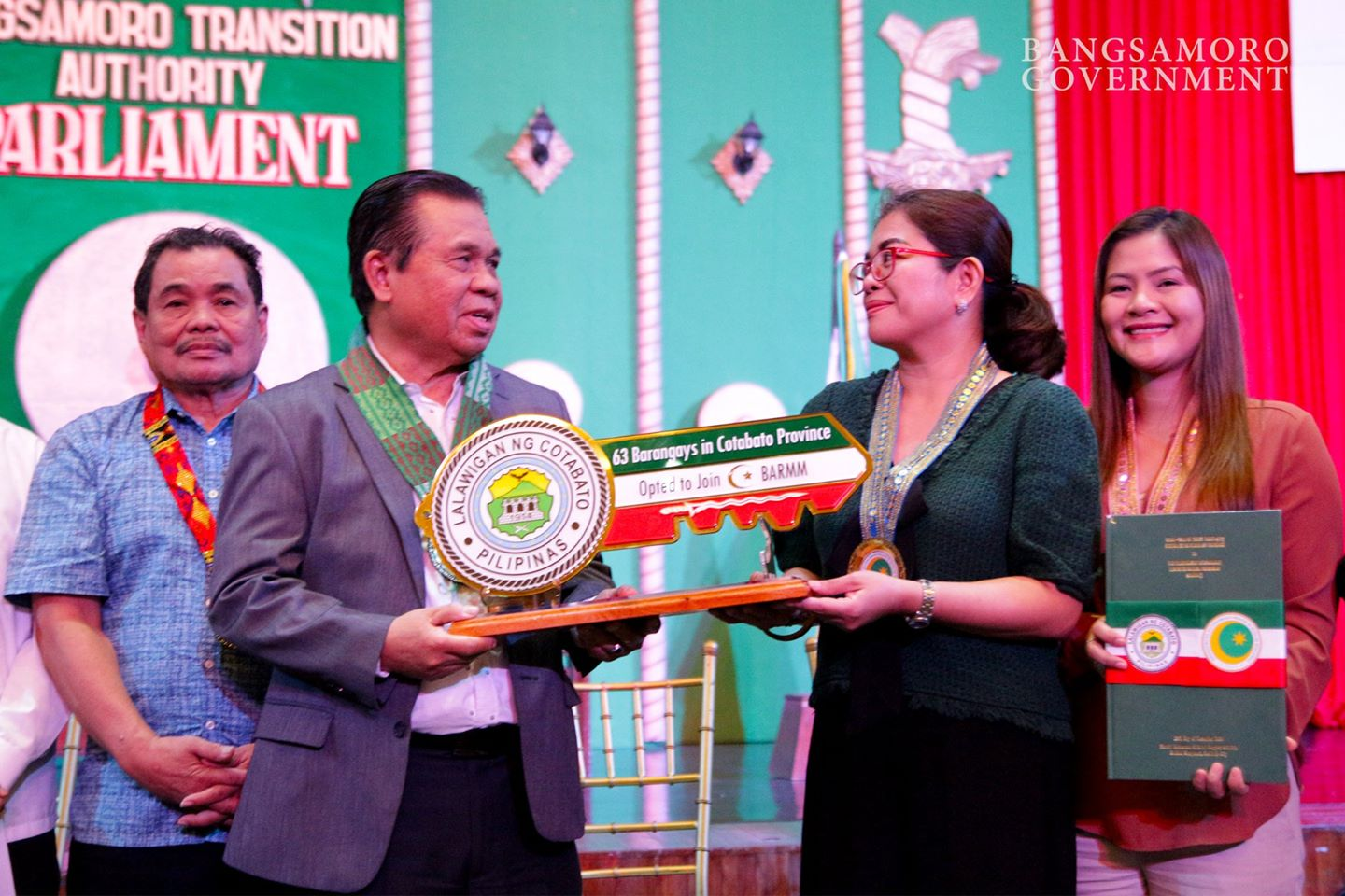 Bangsamoro Autonomous Region in Muslim Mindanao (BARMM) Chief Minister Murad Ebrahim receives the symbolic key to the 63 barangays in North Cotabato, which opted to join the BARMM, from North Cotabato Acting Governor Emmylou Talino Mendoza marking the formal turnover of the barangays to the BARMM government.